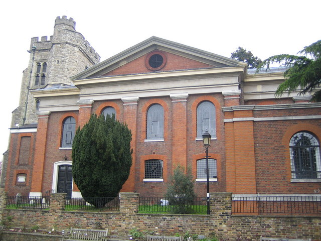 Twickenham: St Mary's Church. The odd mixture of building styles of the ragstone tower and red brick nave and chancel in this church is due to the fact that the original church collapsed in 1713, leaving just the tower. The church was quickly rebuilt and completed in 1714. The Twickenham Museum web page for the church is here